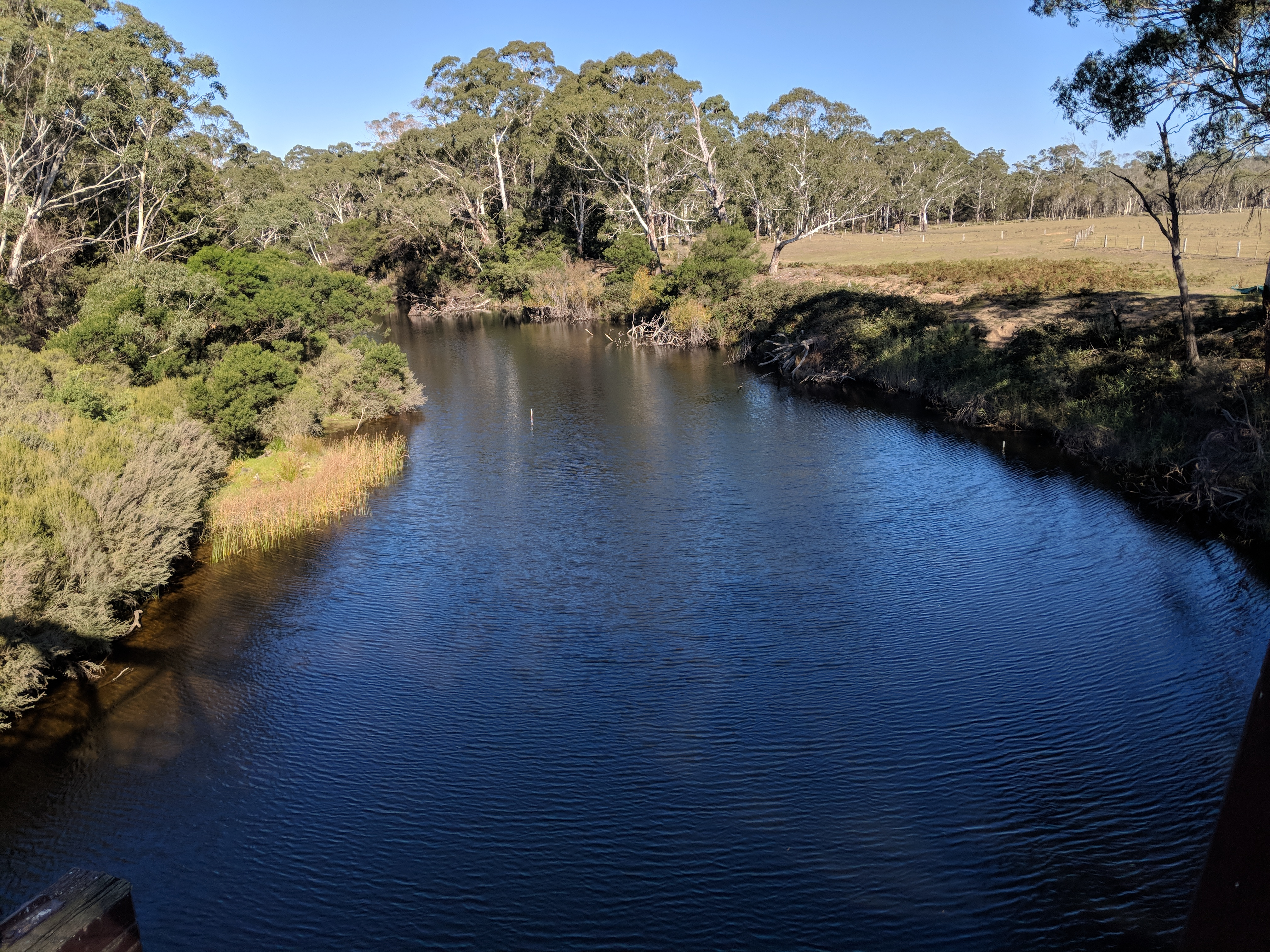 Mongarlowe River at Charleyong, New South Wales